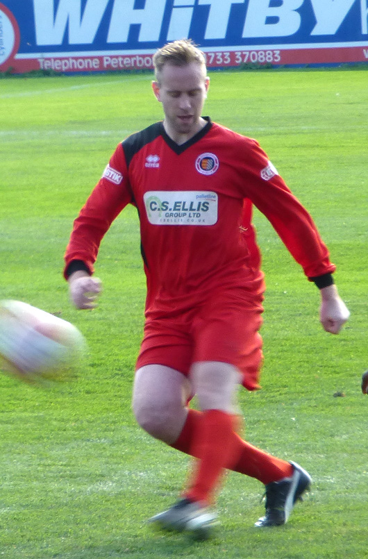 Andy Burgess playing for Stamford AFC in September 2013.